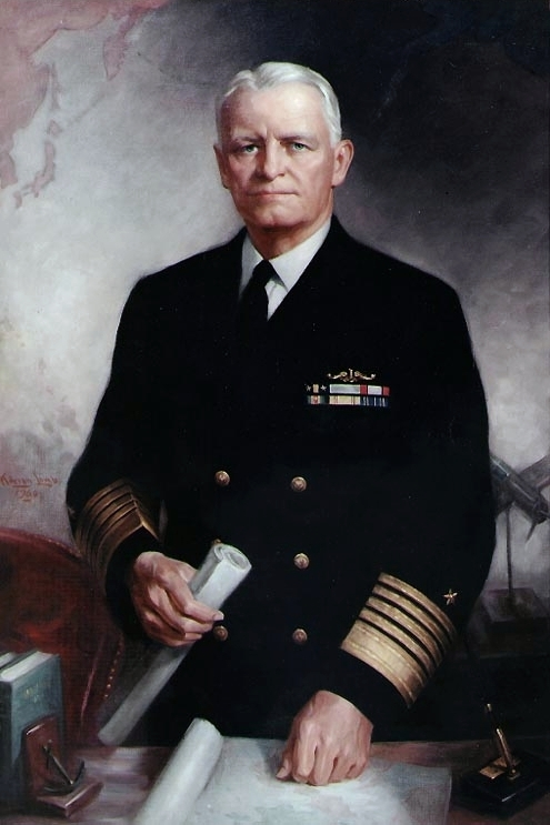 Fleet Admiral Chester W. Nimitz, USN Oil on canvas, 46.5" x 30", by Adrian Lamb, 1960.